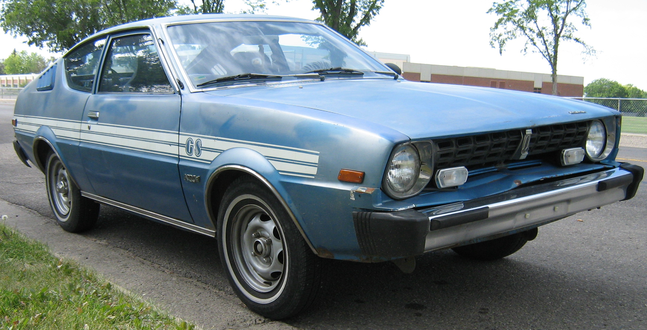 In the US there was the Plymouth Arrow - Canada also got a badge engineered version called the Dodge Arrow. Its a clone of the Mitsubishi Celeste which its self its based on the Mitsubishi Lancer/Dodge Colt.